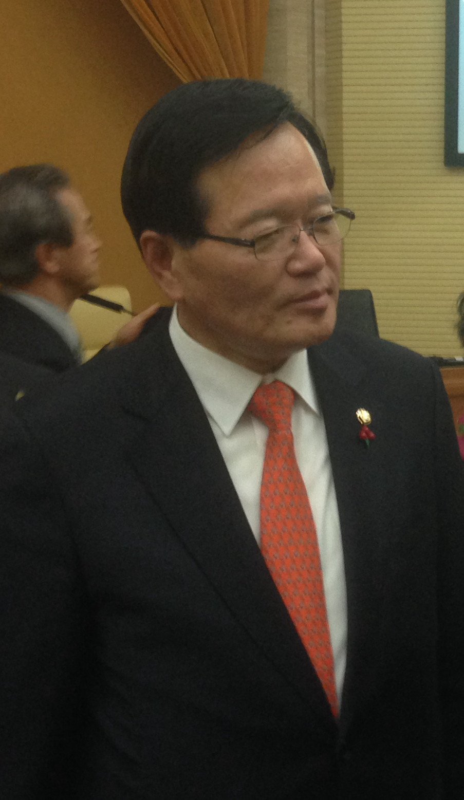 Chung Ui-Hua, Speaker of the 19th National Assembly of the Republic of Korea, in China Foreign Affairs Univerisity.